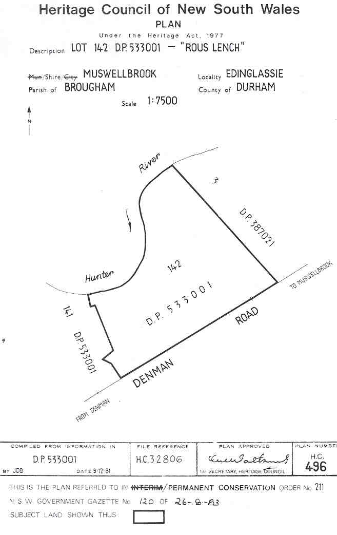 Rous Lench: PCO Plan Number 211